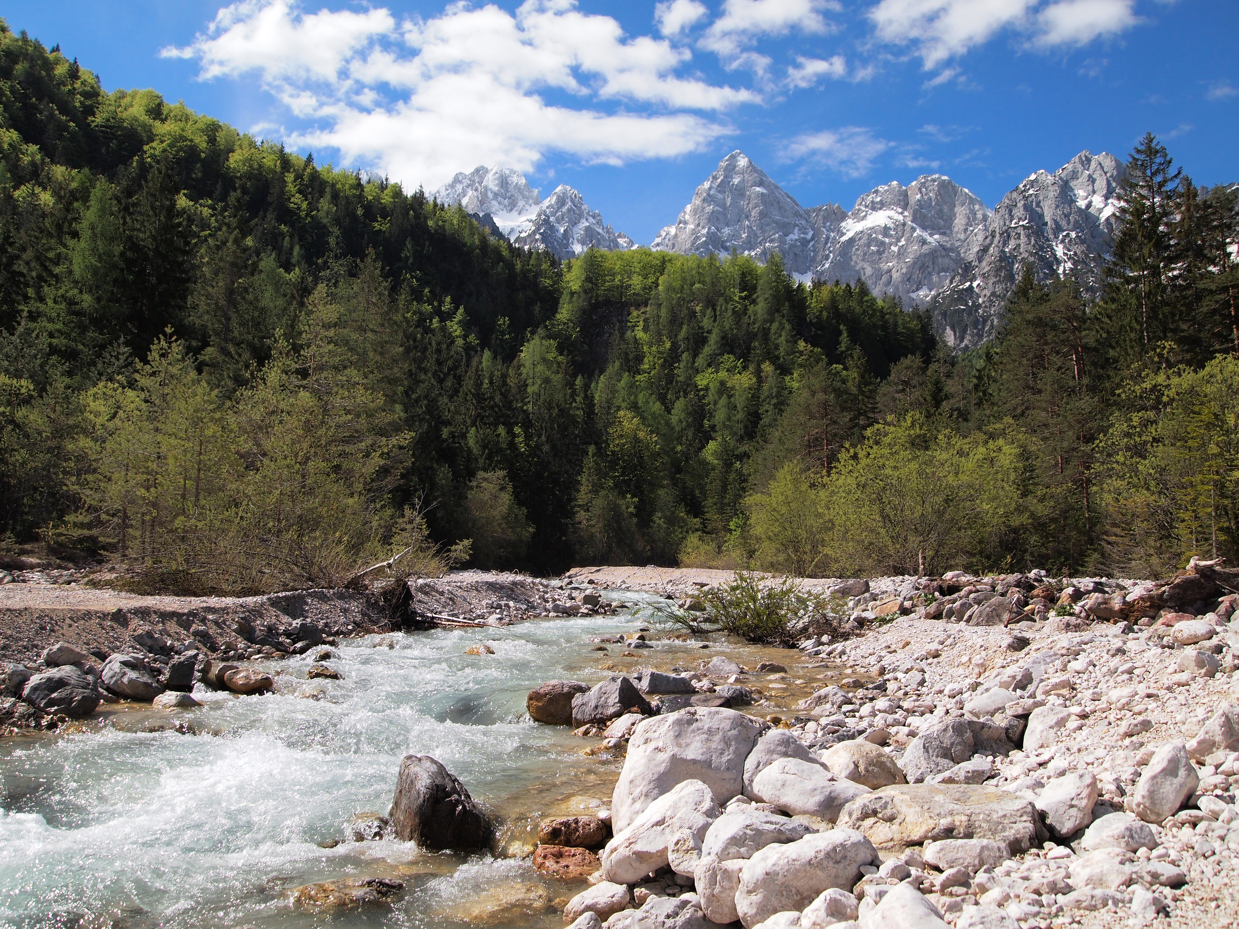 River in Gozd Martuljek on the area of Trigav National Park, Slovenia.